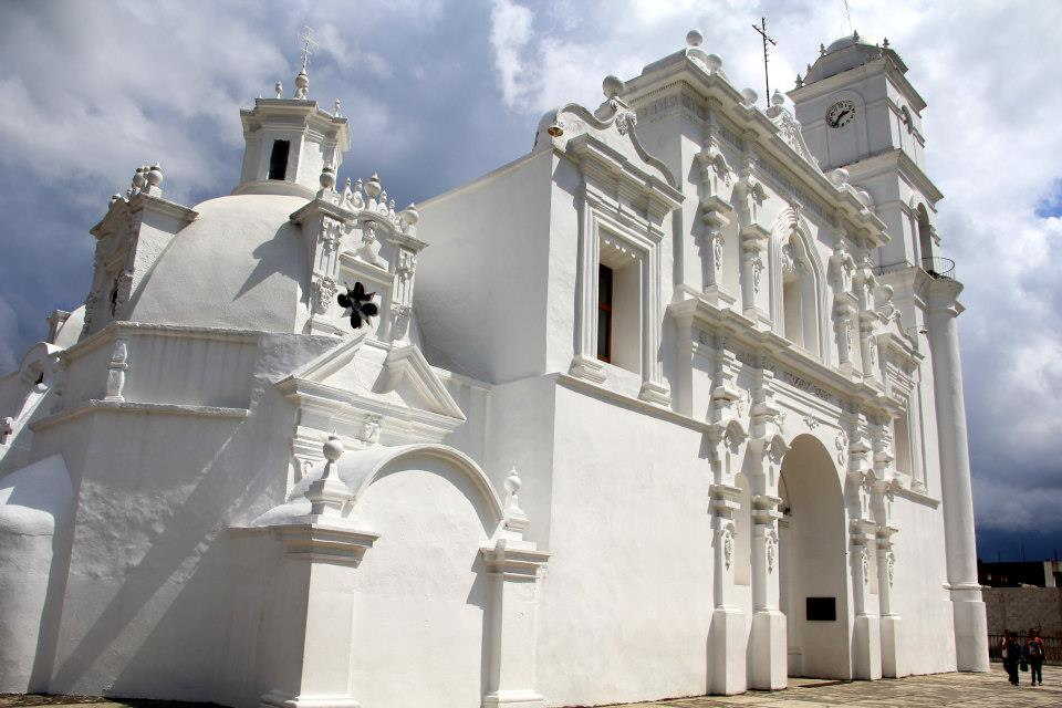 Parroquia de la Virgen de la Asunción en Misantla, Veracruz.